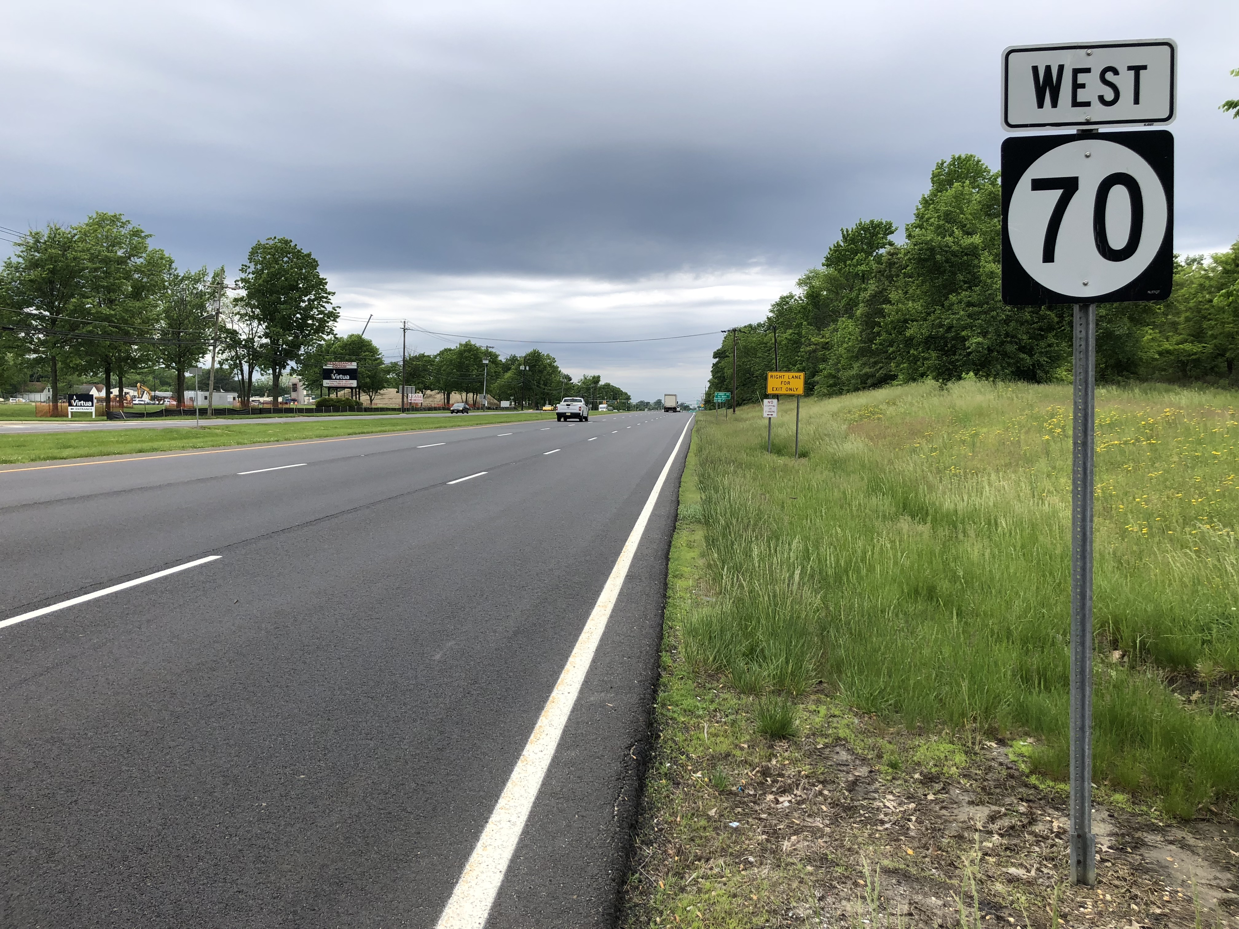 View west along New Jersey State Route 70 at Plymouth Drive in Evesham Township, Burlington County, New Jersey